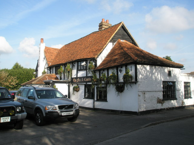 The Fox and Castle at Old Windsor The landlord told me the first licence for this hostelry was issued in 1642.